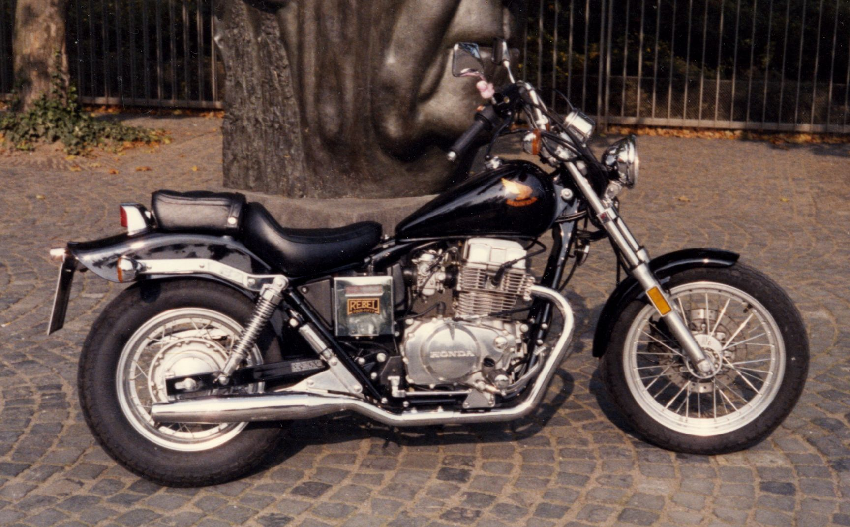 Honda CMX450 Rebel in Bonn/Germany. Photo by Christof Damian released for public domain.